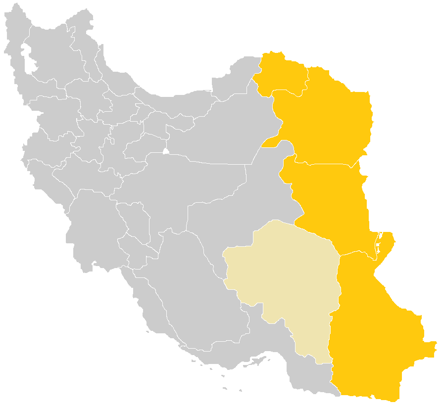 Map of eastern Iran File:Blank-Map-Iran.PNG